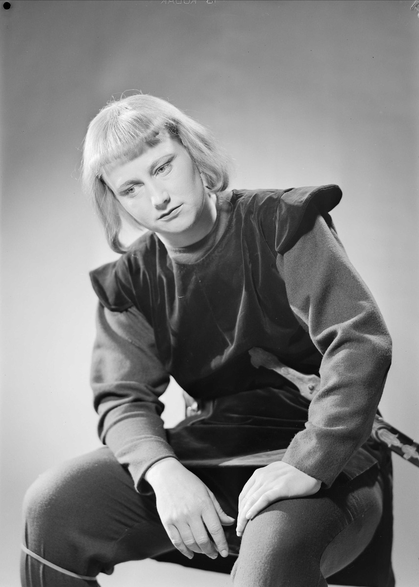 Norwegian opera singer Aase Nordmo Løvberg (1923–2013), photo from 1952